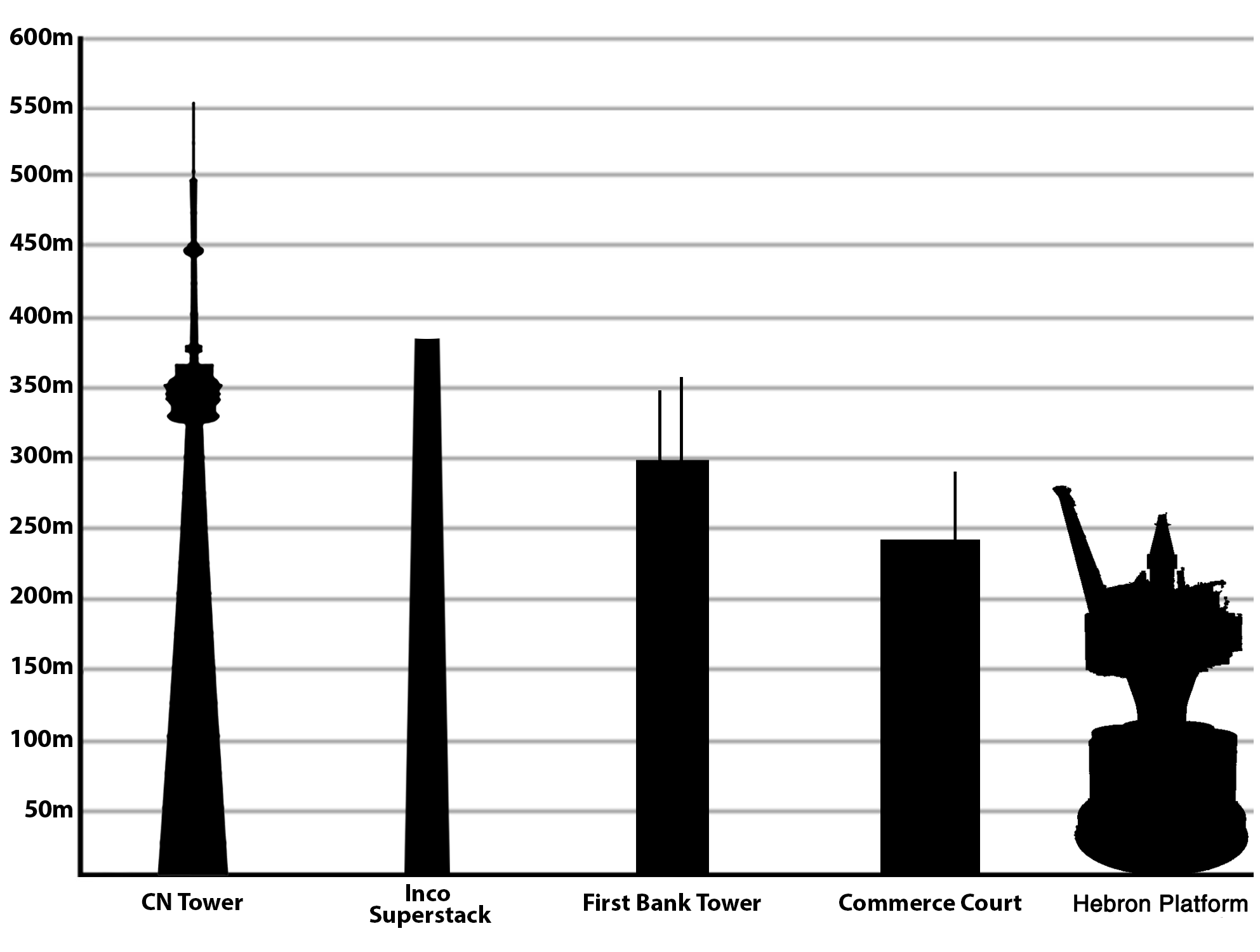 Tallest buildings in Canada (not including guyed masts); Used data from .